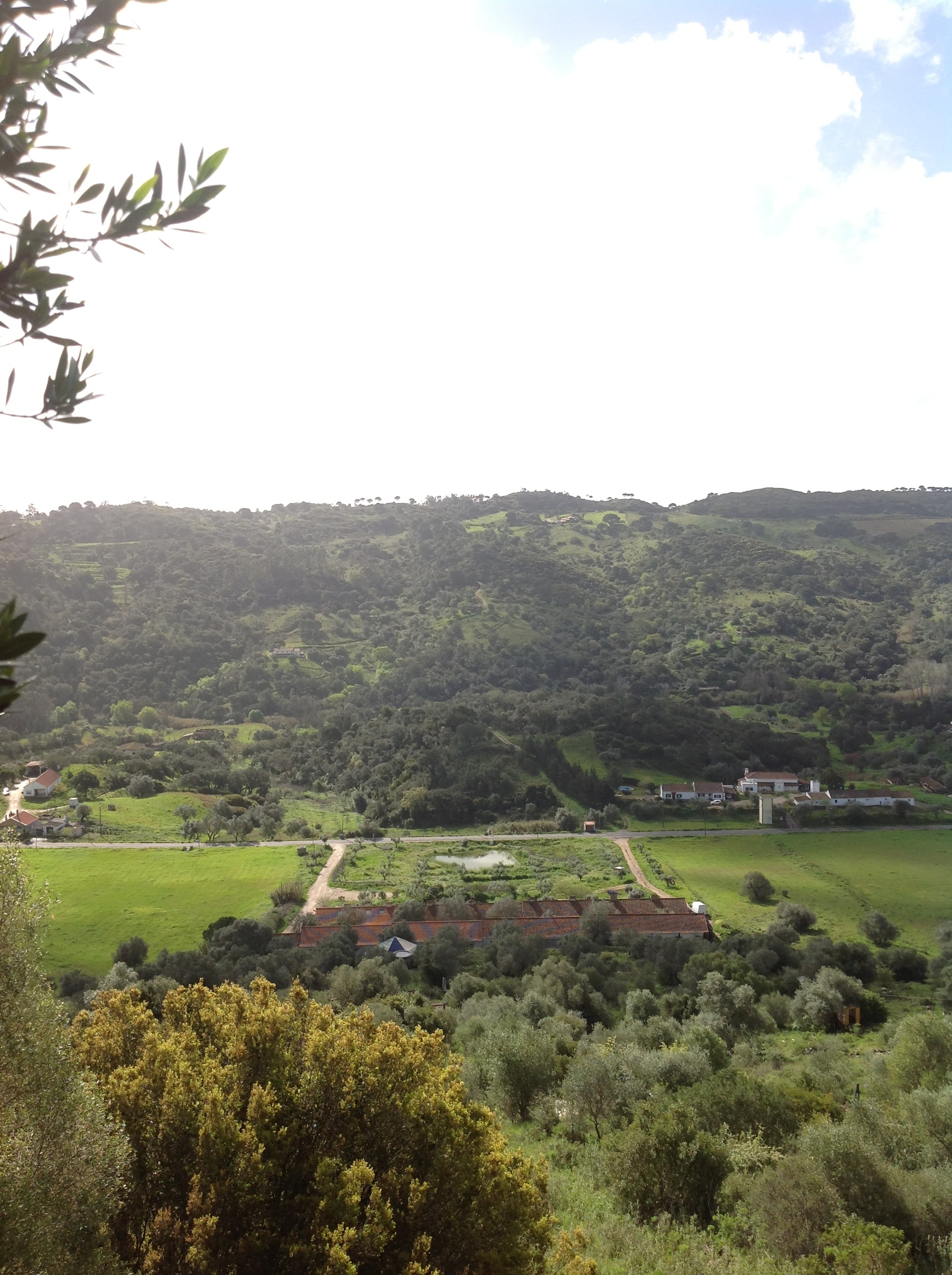 Serra do louro